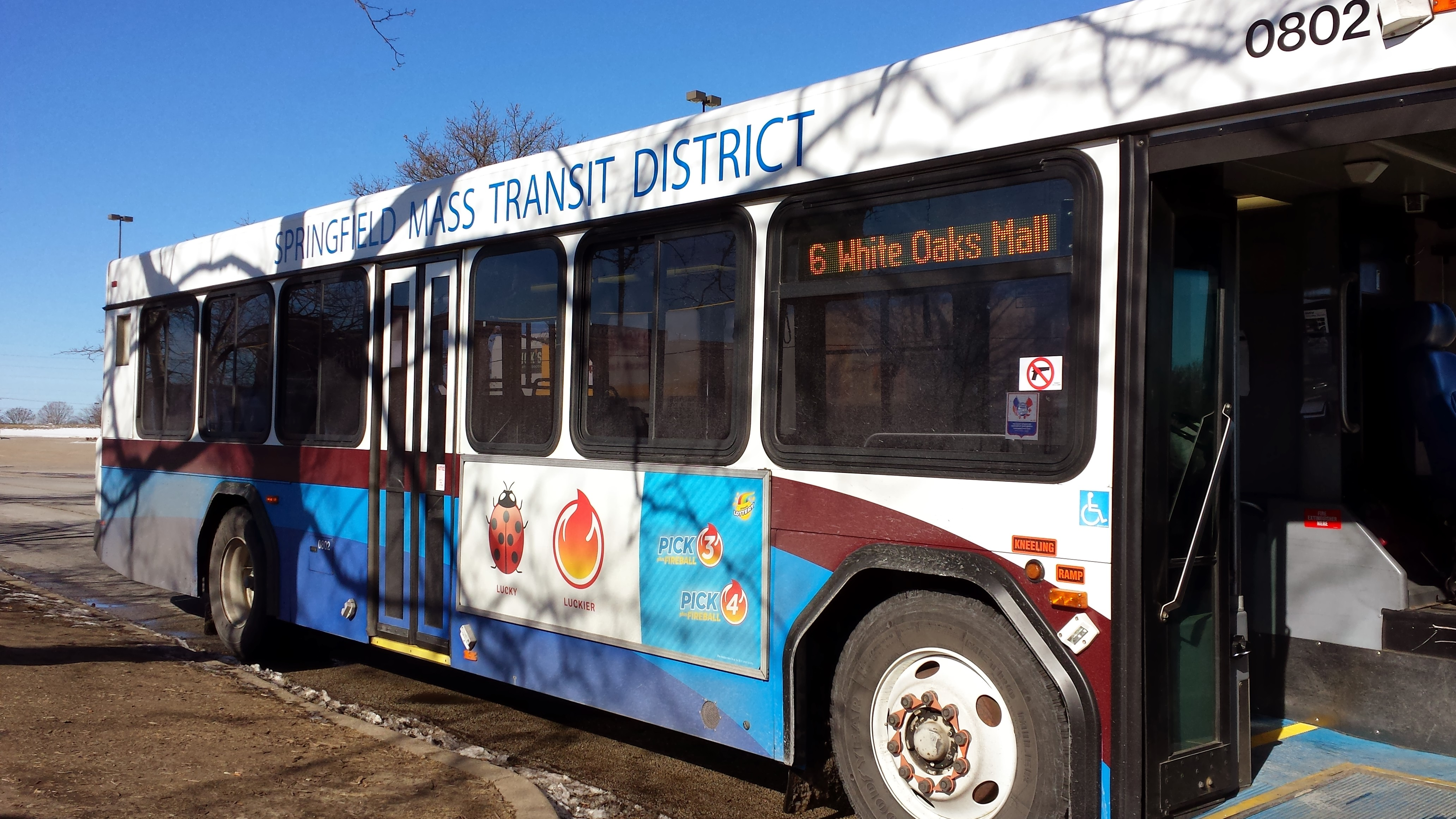 2008 Low Floor 35ft Gillig bus 0802 On Route 6 E. Cook/Ash/White Oaks Mall